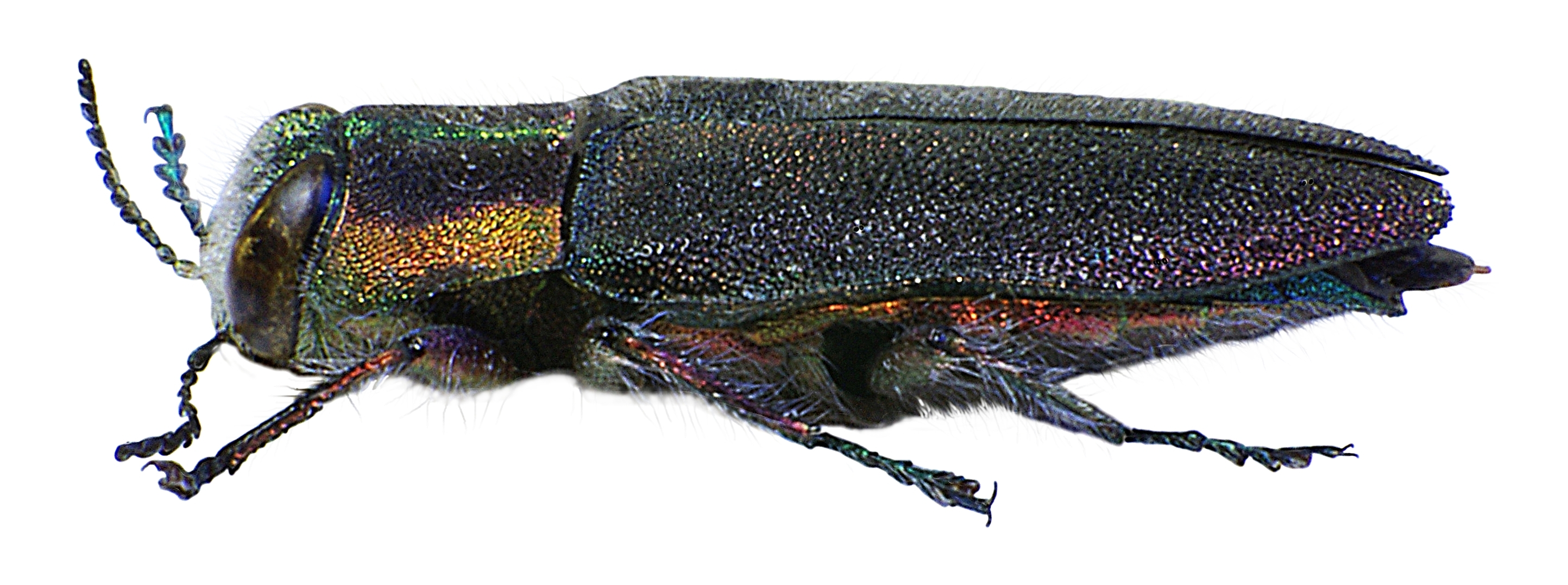 Side of Anthaxia manca from Eastern Hungary